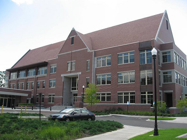 Psych Building at FSU as viewed from the front.